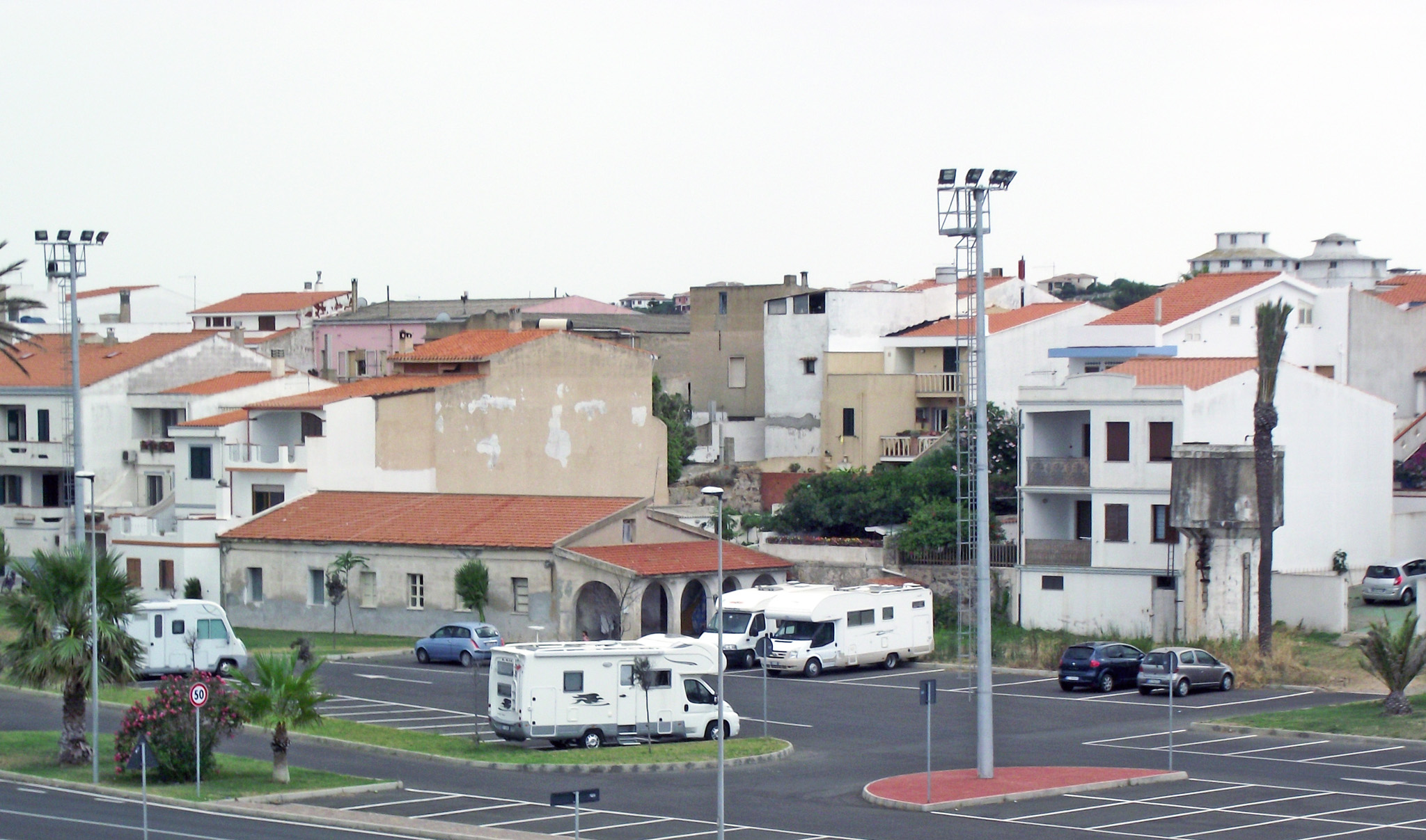 The southern area of the former railway station of Calasetta, in Sardinia, Italy. Inside the parking lot where in the past there were the rails, are still present the former locomotives depot and the water tank of the station.